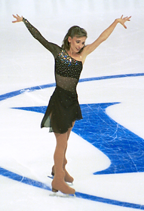 Tatiana Malinina competes her long program at the 2001 Grand Prix Final in Kitchener, Ontario.